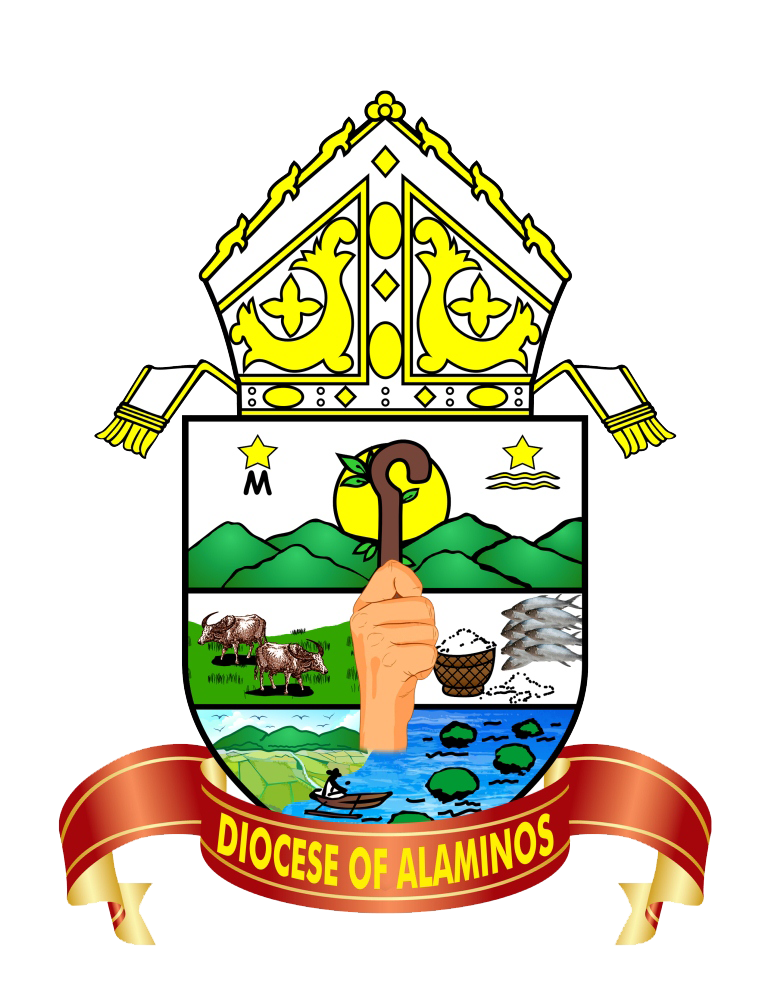 The Official Seal of the Diocese of Alaminos